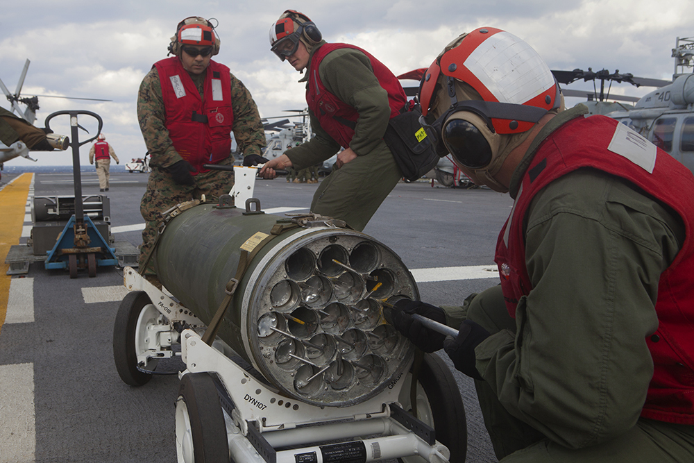 Marines with Marine Medium Tiltrotor Squadron 365 (Reinforced), 24th Marine Expeditionary Unit (MEU), remove 2.75-inch rockets from an LAU-61 rocket pod aboard USS Iwo Jima (LPD 7), Jan. 7, 2015. The 24th MEU and Iwo Jima Amphibious Ready Group are conducting naval operations in the U.S. 6th Fleet area of operations in support of U.S. national security interests in Europe. (U.S. Marine Corps photo by Lance Cpl. Austin A. Lewis/Released)